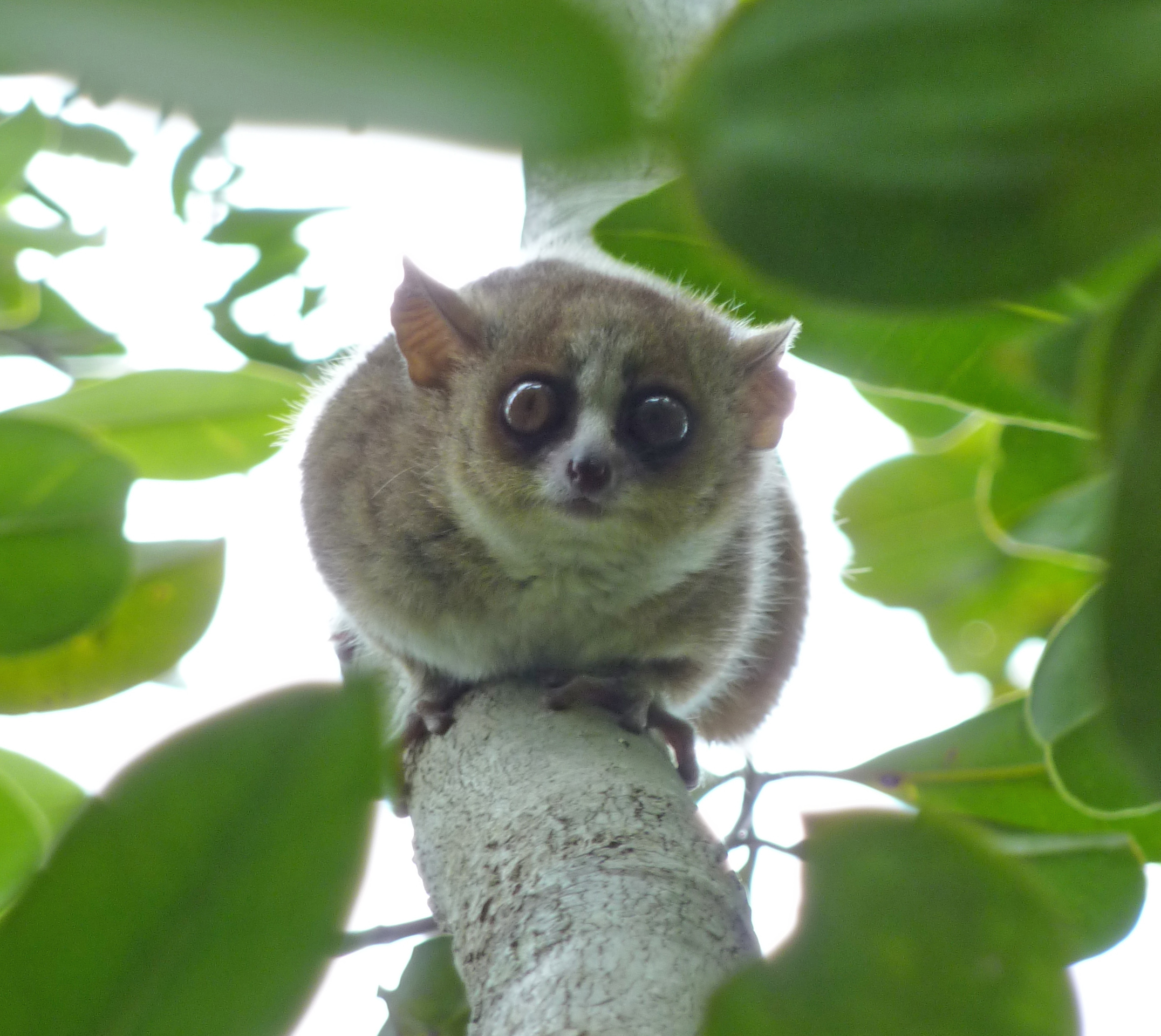 Brown Mouse Lemur (Microcebus rufus) at Petriky in Madagascar